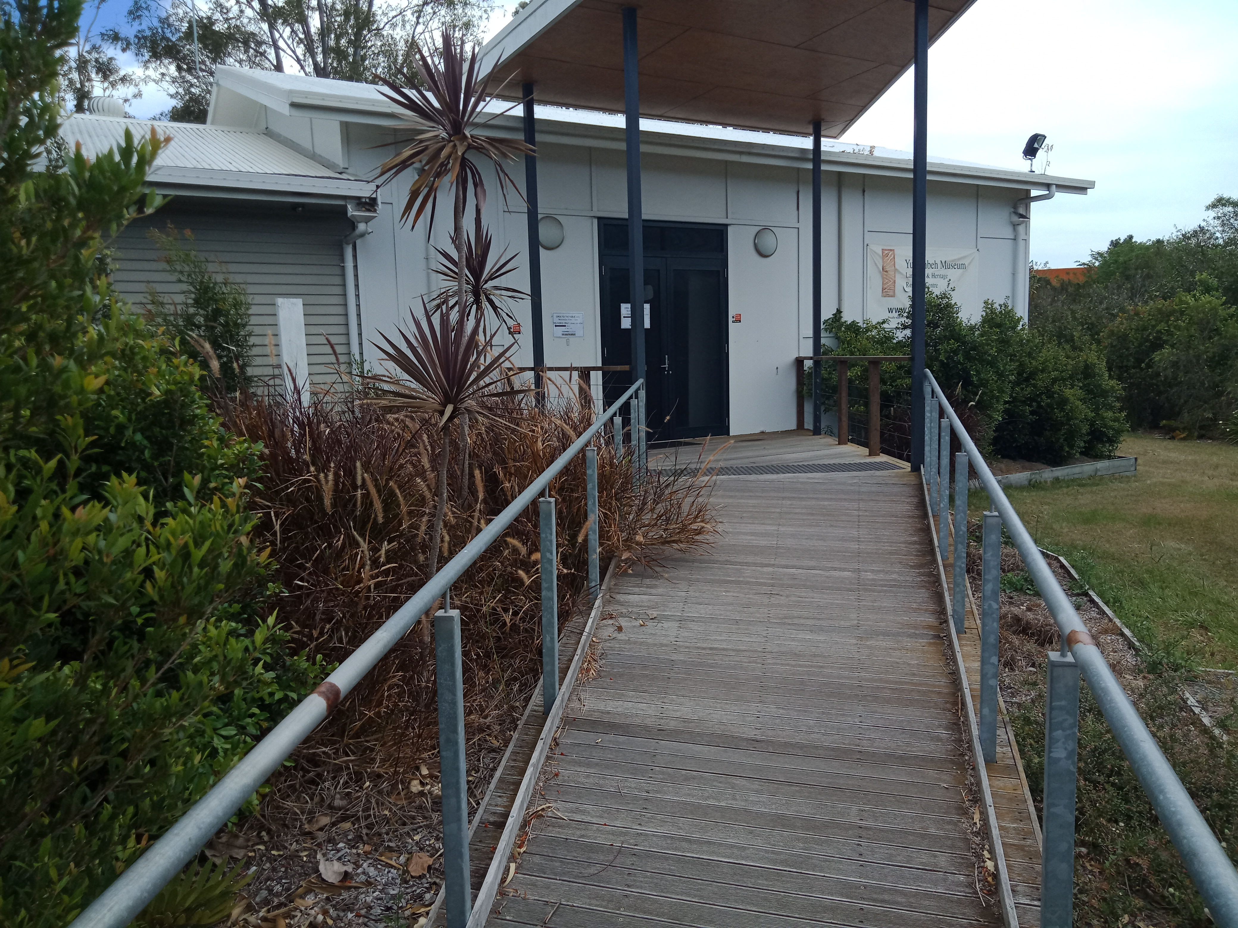 Exhibition Centre entrance